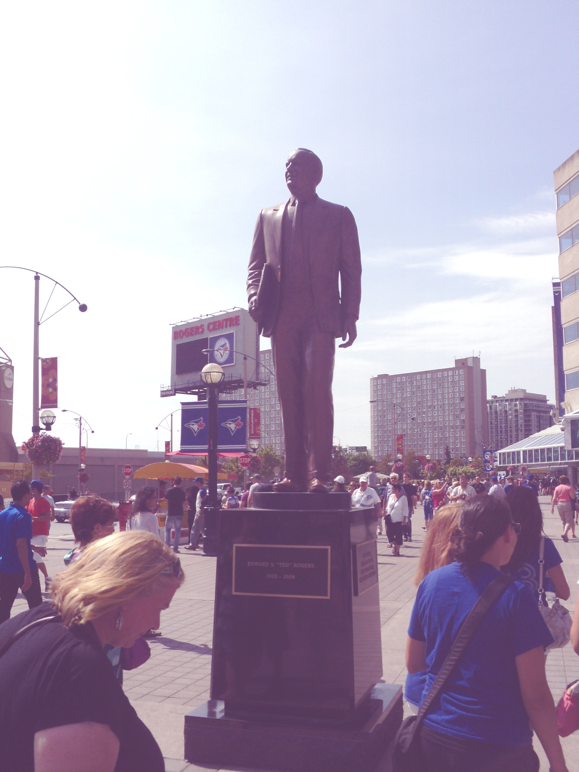 Statue of Ted Rogers in front of the Rogers Centre in Toronto. Was taken in bright sunlight, adjusted as best as I could in GIMP.